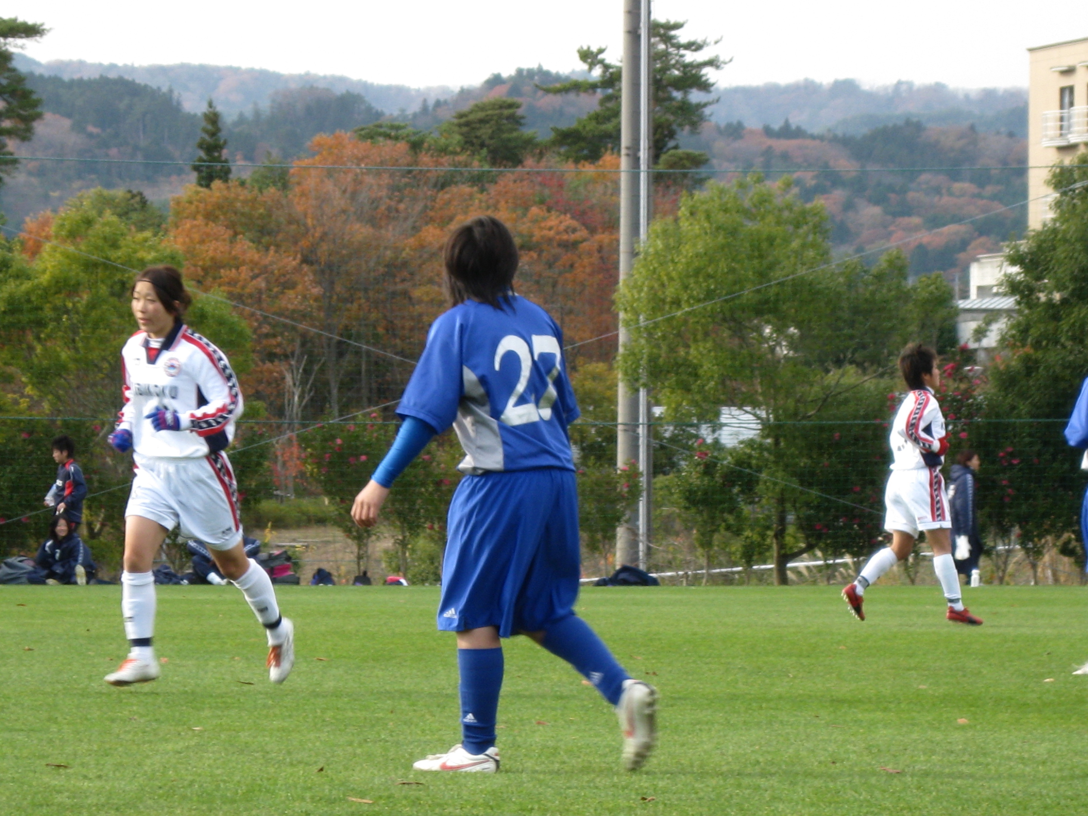 Kibi International Univ. LFC vs. Osaka Internationak Univ. LFC, the group league match of All Japan Women's Interclooegeate Football Championship (J. Villege, November 29, 2009)